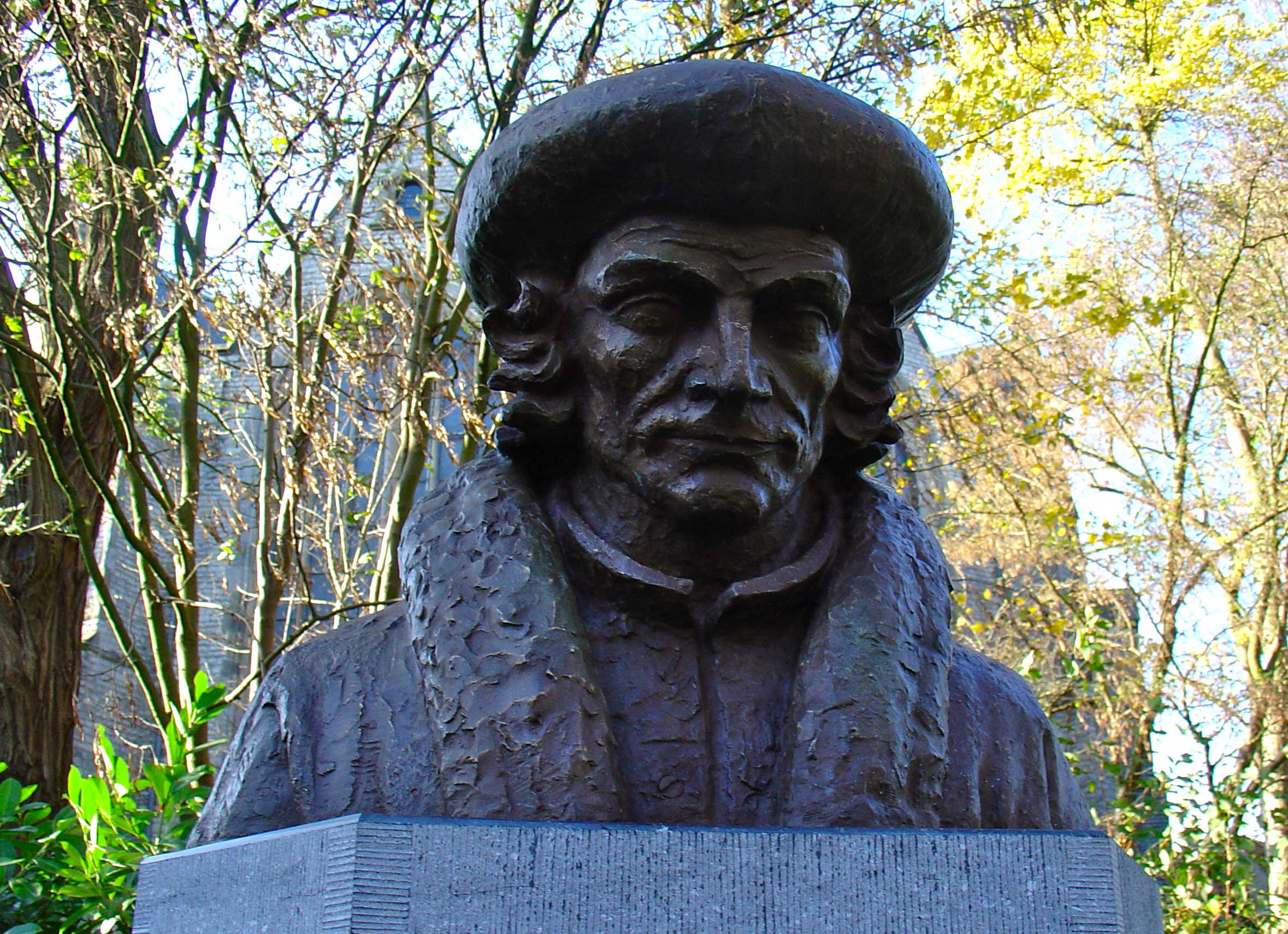 bust of Ermasmus, made by Hildo Krop in 1950 and situated at Gouda